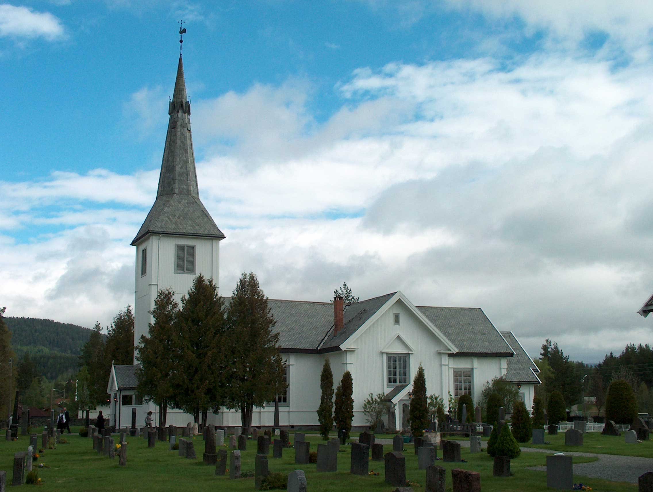 Lunder kirke (Lunder church) at Sokna, Ringerike, Buskerud, Norway. Originally published on no.wikipedia: with this info: Lunder kirke, Sokna, Ringerike, Buskerud Fotograf: Tom Bjørnstad Released into the Public Domain by the photographer, Tom Bjørnstad.